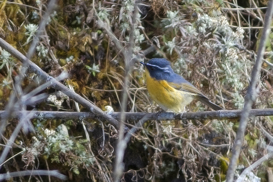 The species White-browed Bush Robin had been photographed during GoingWild's birding tour to Lungthu, East Sikkim, India on 08.11.2015.